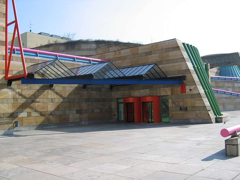 Front of the Neue Staatgalerie Stuttgart, 1984. Concept by the British Architect James Stirling. Facade: Limestone "Travertine" and sandstone. The Travertine was taken from the nearby stone pit at Stuttgart Bad Cannstatt-Münster, where mighty terraces of tufa (last Interglacial) are found.